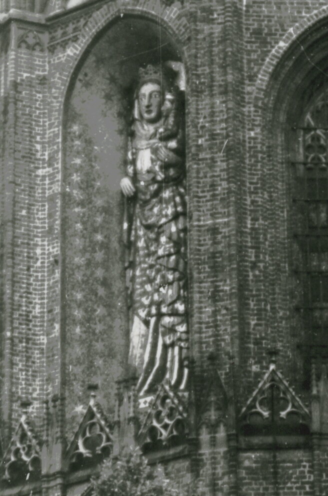 Glass covered mosaic of Virgin Mary on Malbork Castle. Picture taken in July 1937 (Between 20th and 24th July). See also: Spraul, G.: "Vom Fähnlein zur Fahne in den Tod", ISBN 978-3-86634-502-7.